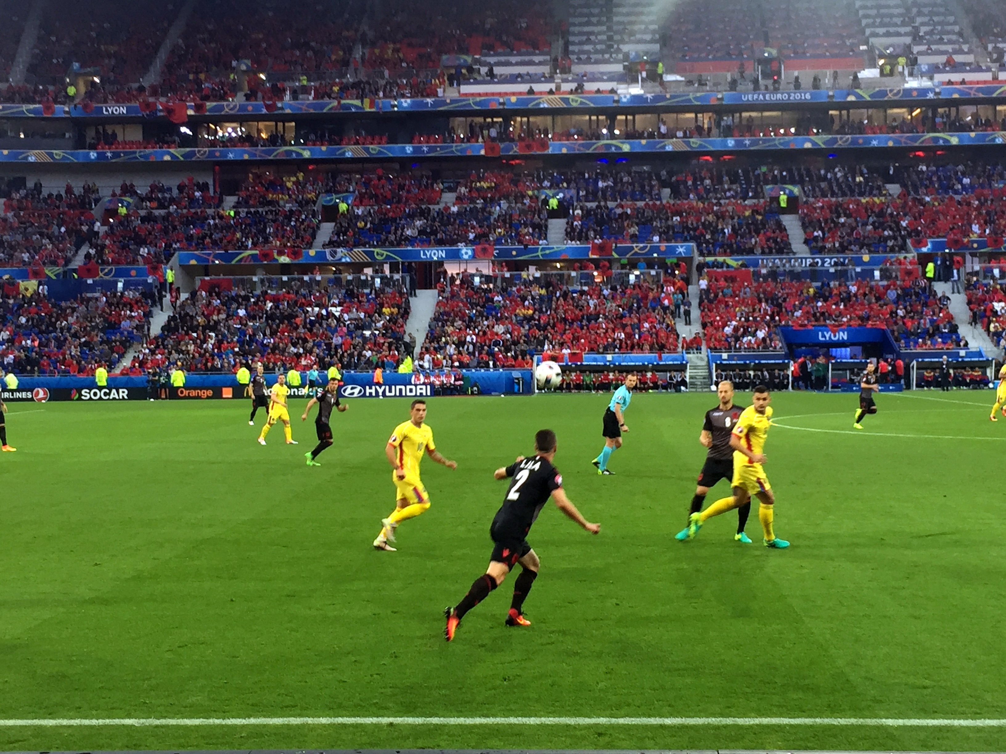 Romania-Albania (2016-06-19)